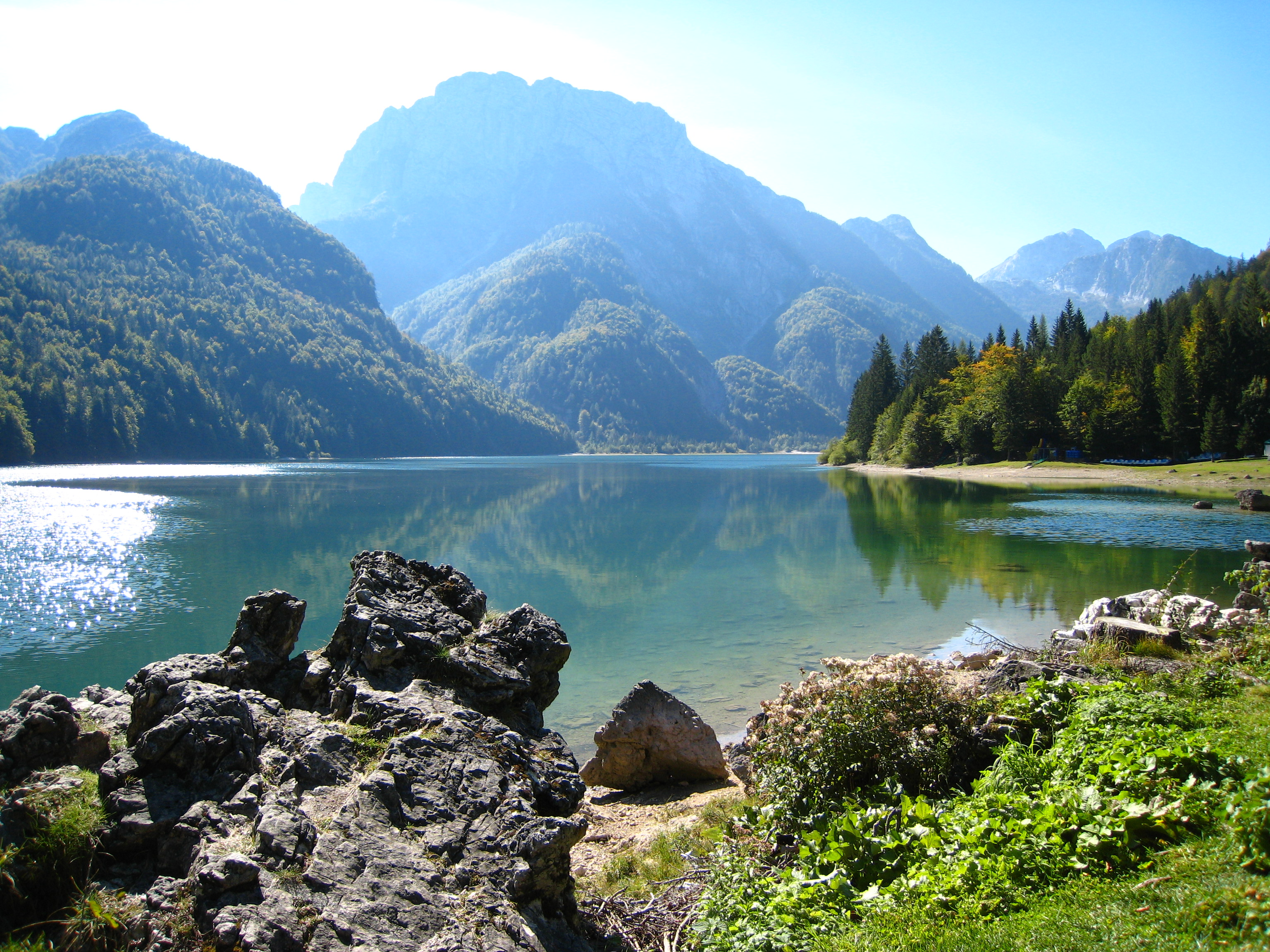 Italia - Tarvisio - Predil lake